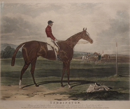 Teddington, winner of 1851 Epsom Derby. Etching by Charles Hunt (b1806).